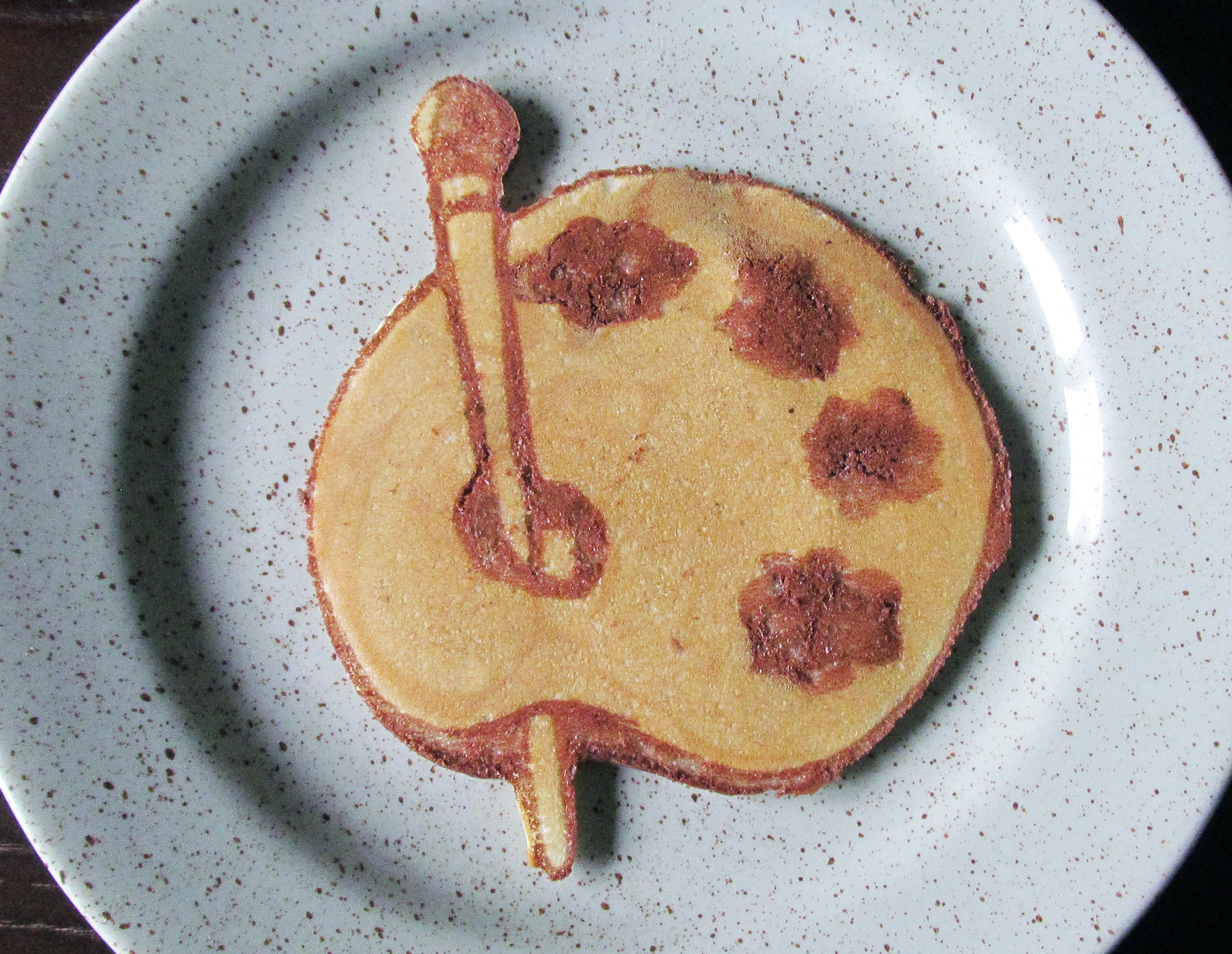 Palette and brush pancake art